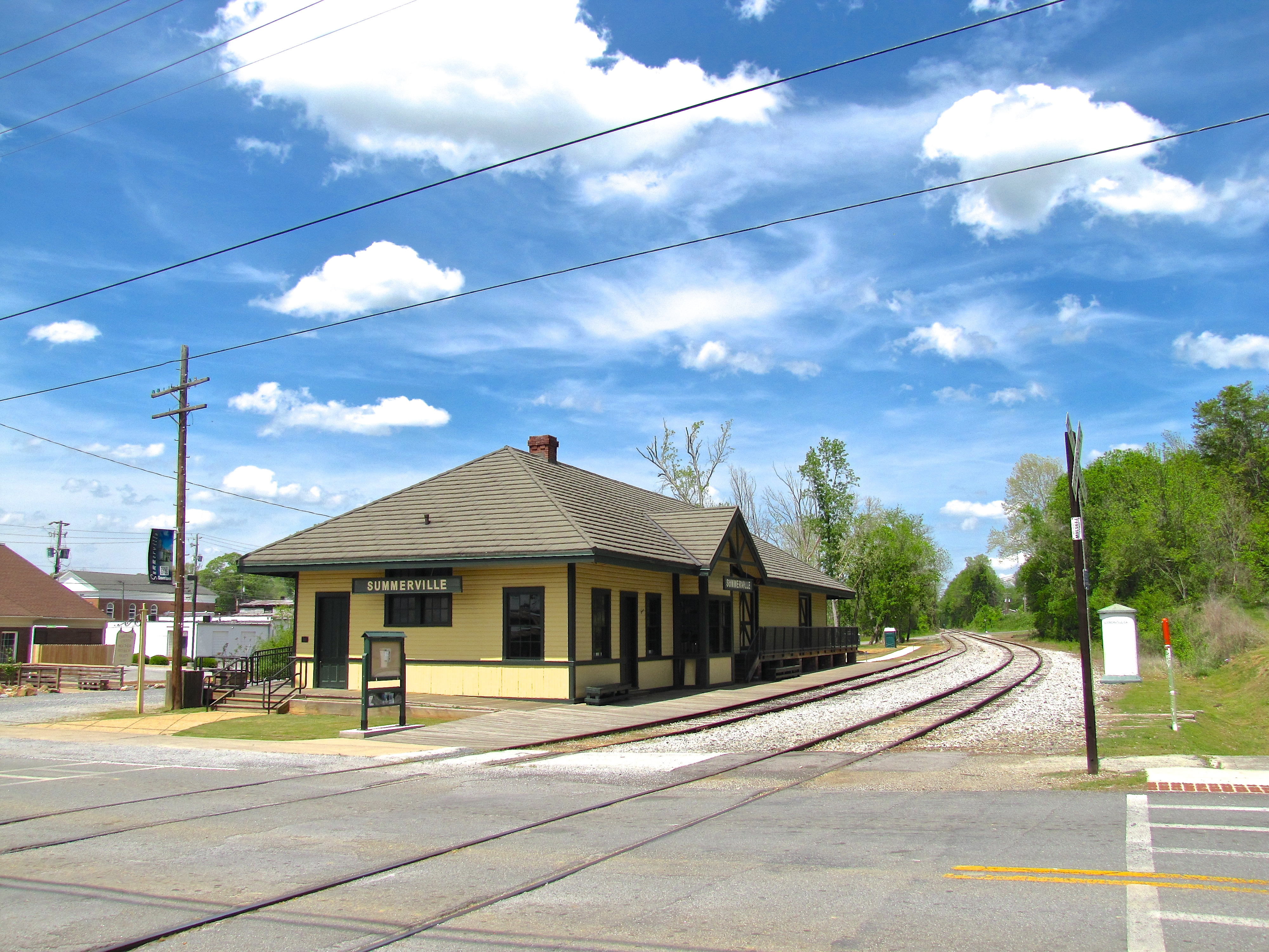 Summerville Depot in Summerville, Georgia, United States.